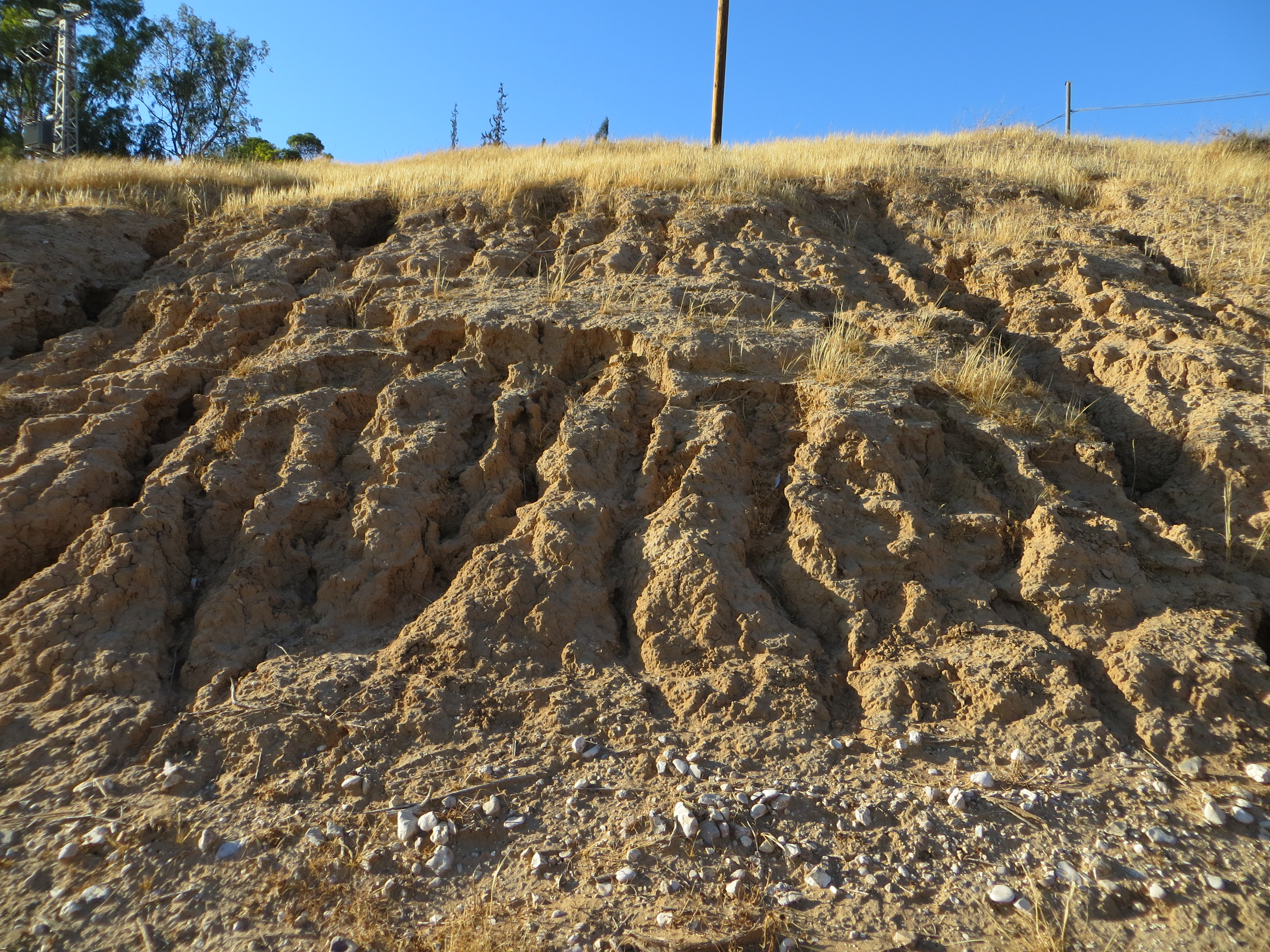 young gullies, norhern Negev, Isarel.